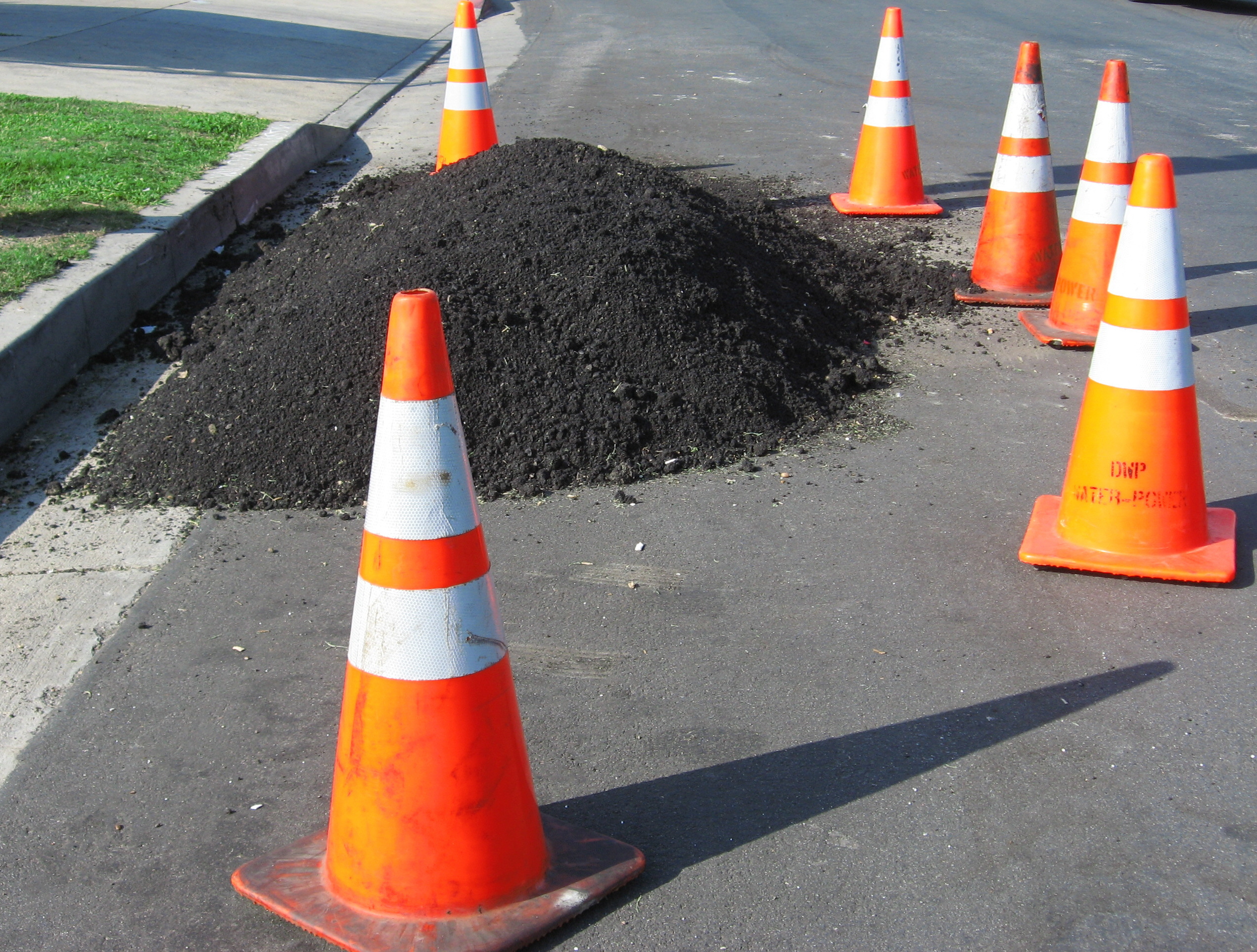 Pile of asphalt surrounded by traffic cones